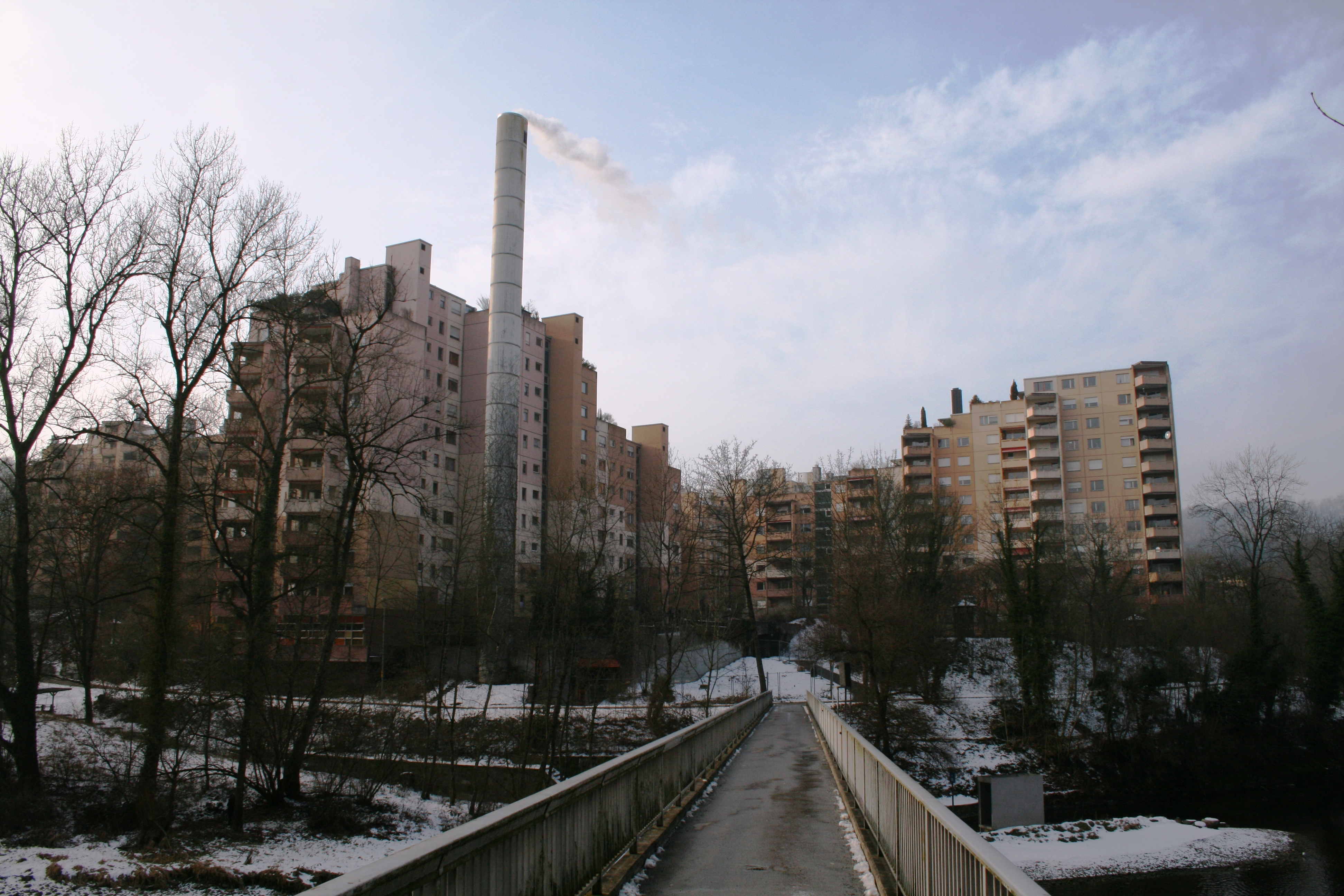 Webermühle, Neuenhof AG, Switzerland